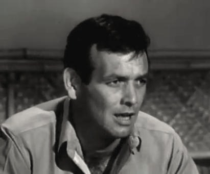 David Janssen in Hell to Eternity - trailer (cropped screenshot)